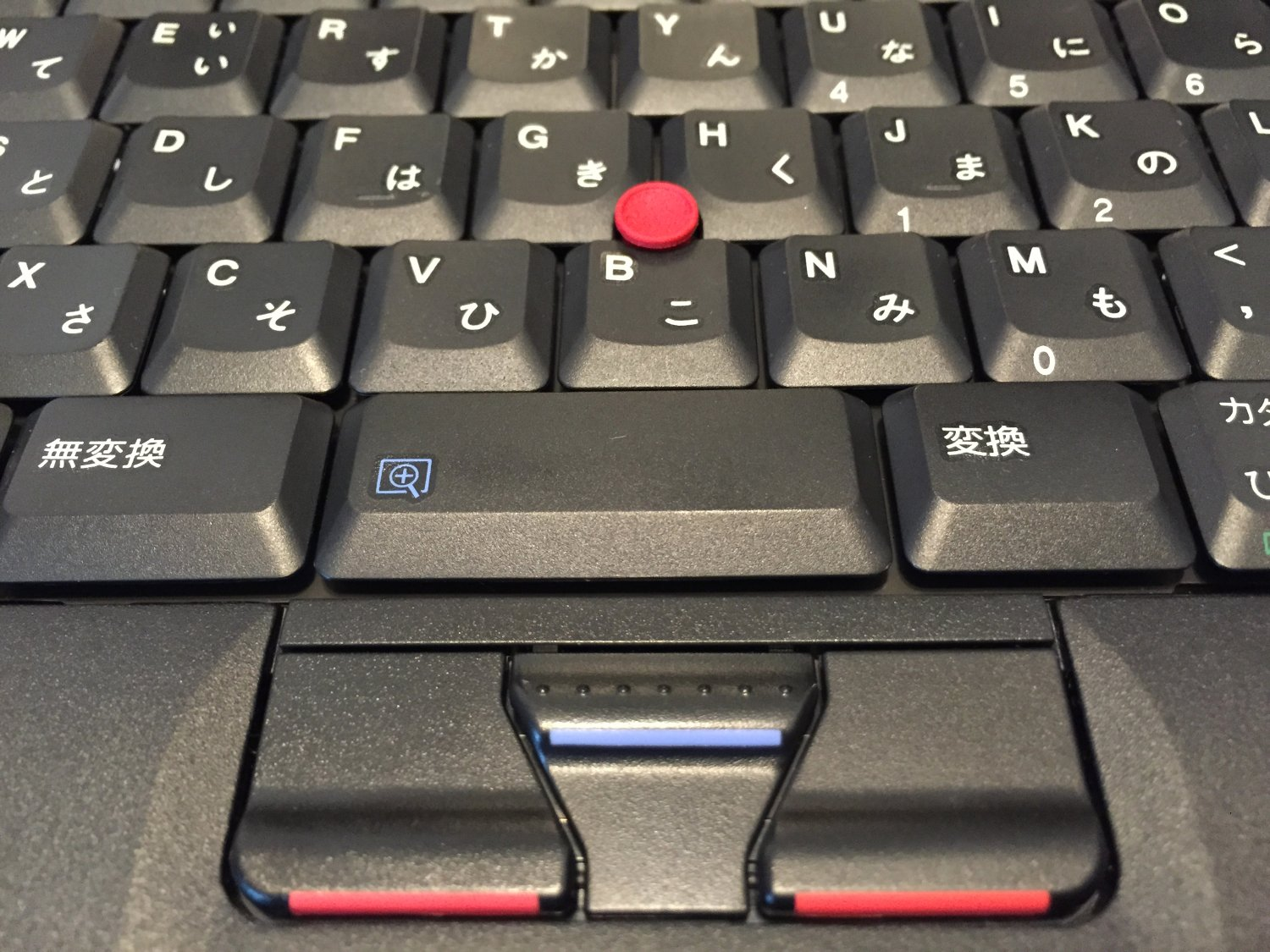 A TrackPoint pointing device along with the corresponding buttons.